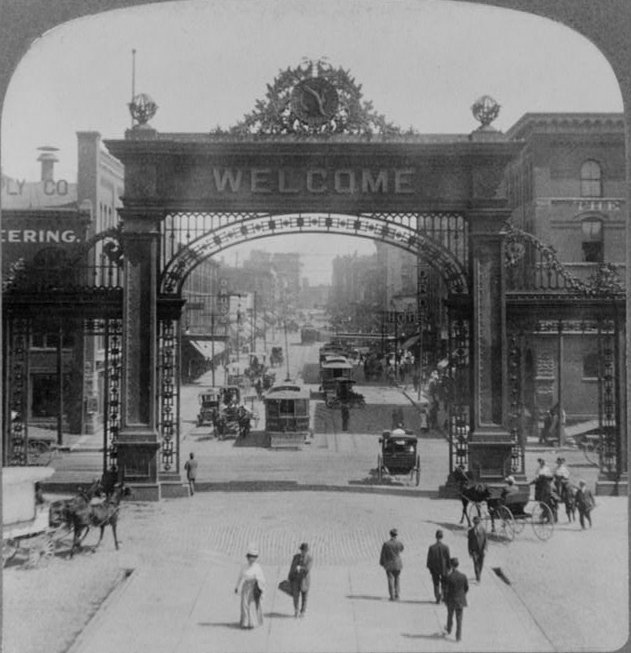 Arch of Welcome, 17th St. E.S.E. from railway station, Denver, Colo.